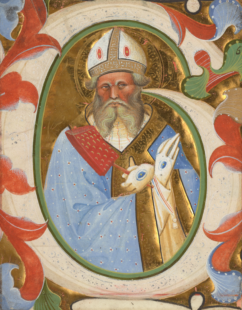 Initial G: Saint Blaise; Master of the Murano Gradual; Venice or Lombardy, Italy; about 1450 - 1460; Tempera and gold on parchment; Leaf: 15.7 x 12 cm (6 3/16 x 4 3/4 in.); Ms. 73, recto